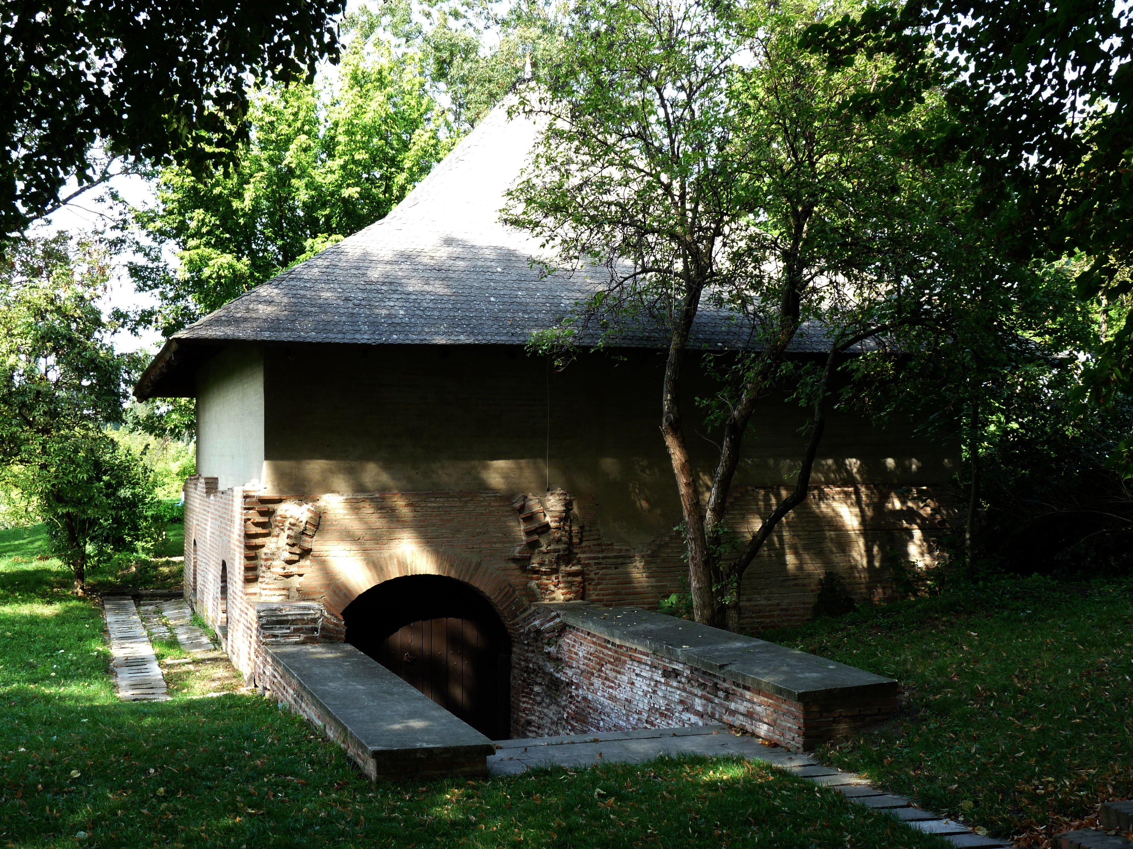 Mogoşoaia Palace, Ilfov County, Romania: the ice house